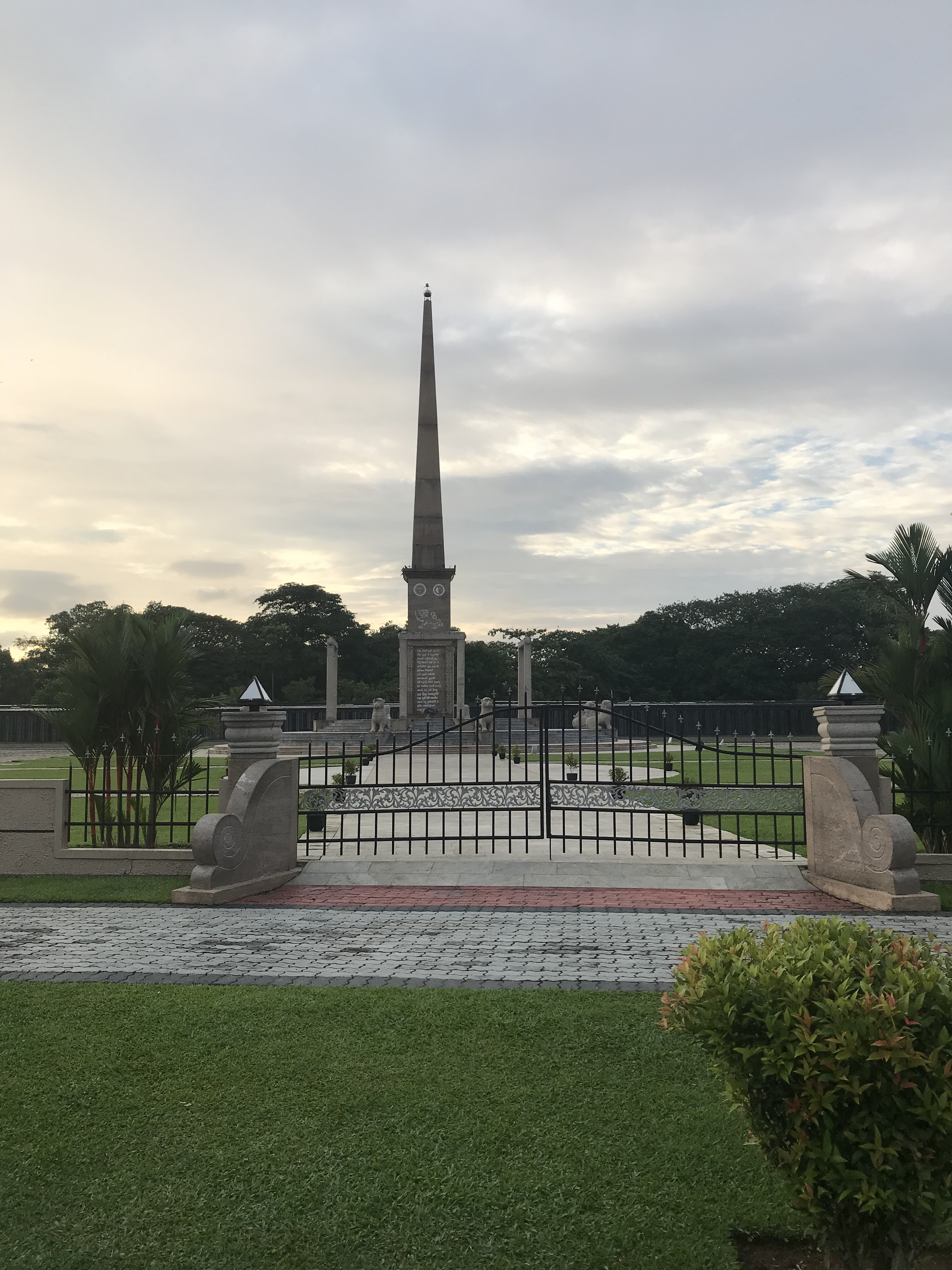 National War Memorial, Battaramulla සිංහල: ජාතික රණවිරු ස්මාරකය